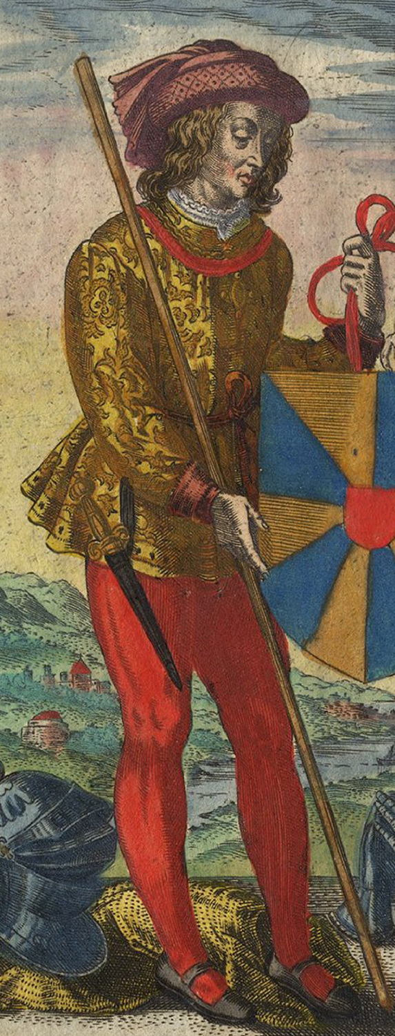 Baldwin VI, Count of Flanders